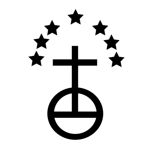 Coat of arms of the Carthusian order